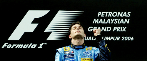 Giancarlo Fisichella (Renault) won the 2006 Malaysian Grand Prix